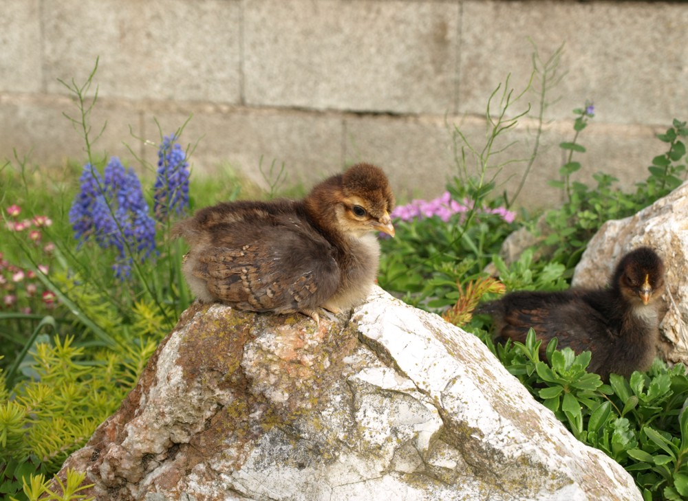 Chicken